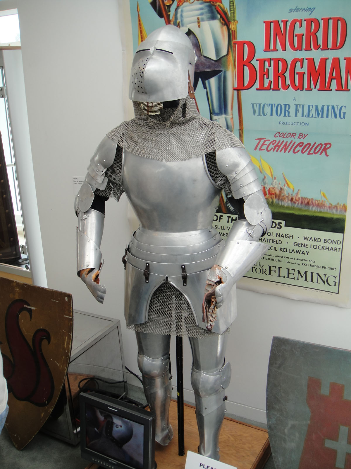 Ingrid Bergman signature full suit of armor with chain mail vest from "Joan of Arc" at the Debbie Reynolds Auction Breaks Up Historic Hollywood Collection (The Paley Center for Media in Beverly Hills, Los Angeles, CA, USA).